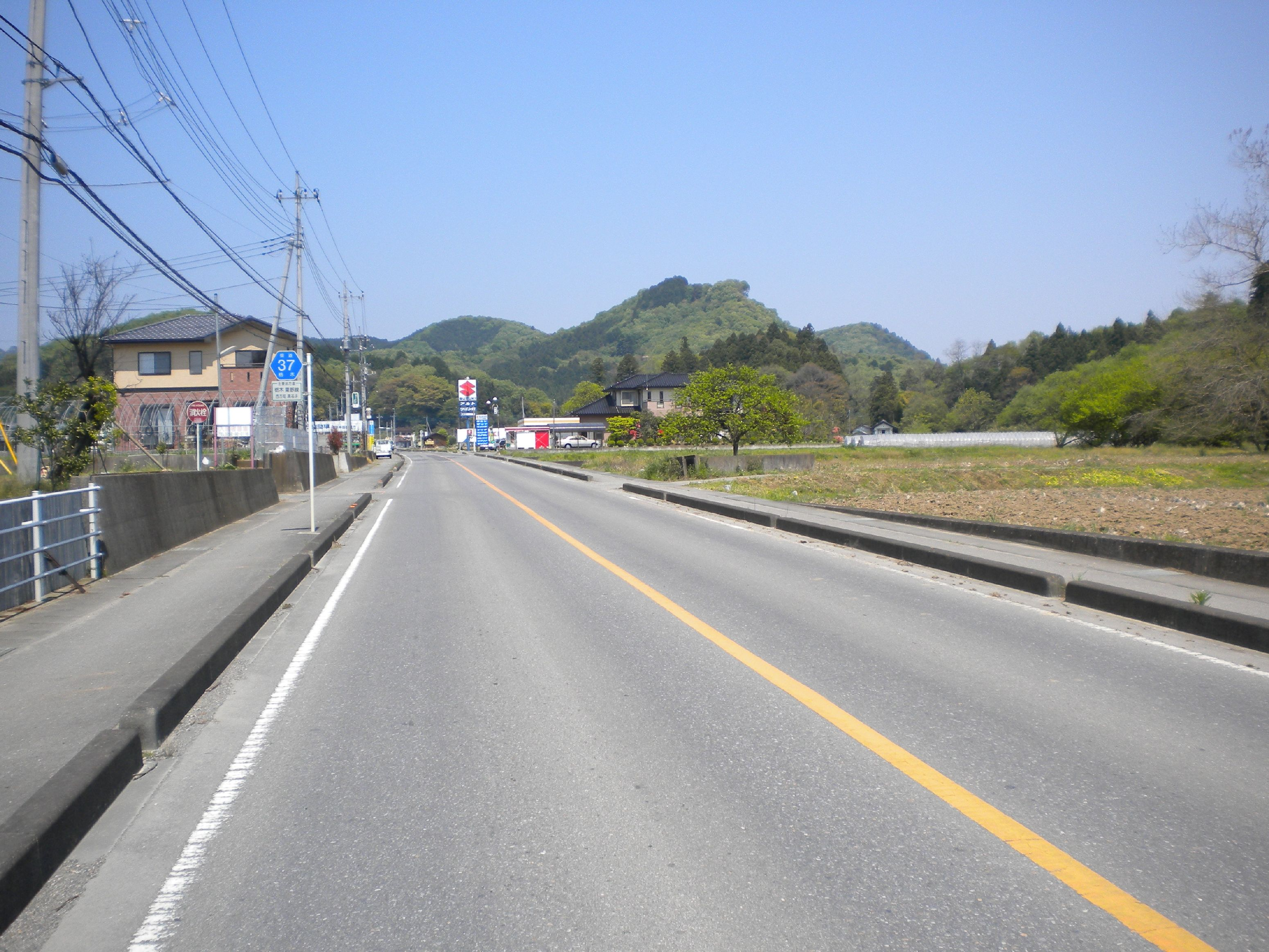 Tochigi prefectural road No.37 on Nishikata town